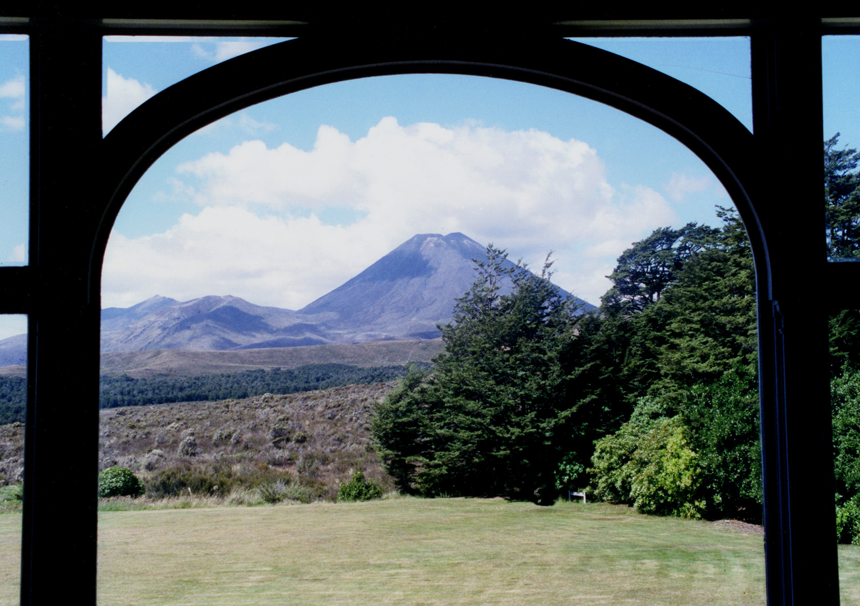 View from the blue sofa in the sitting area. A good reason to sit.